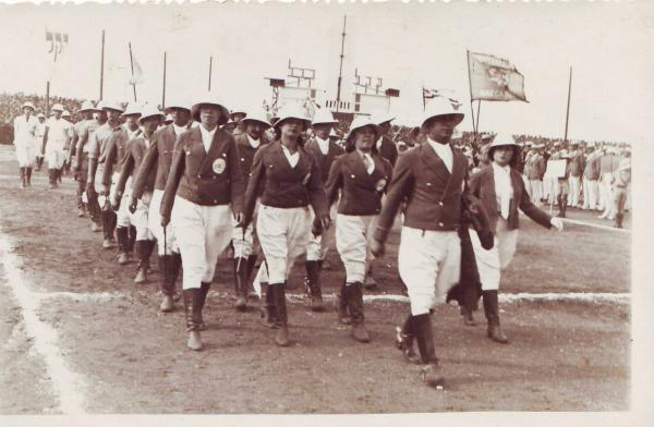 Horse back riders from Petach Tikva marching in the opening ceremony of the 2nd Maccabiya held on the seashore of Tel Aviv in 1935.